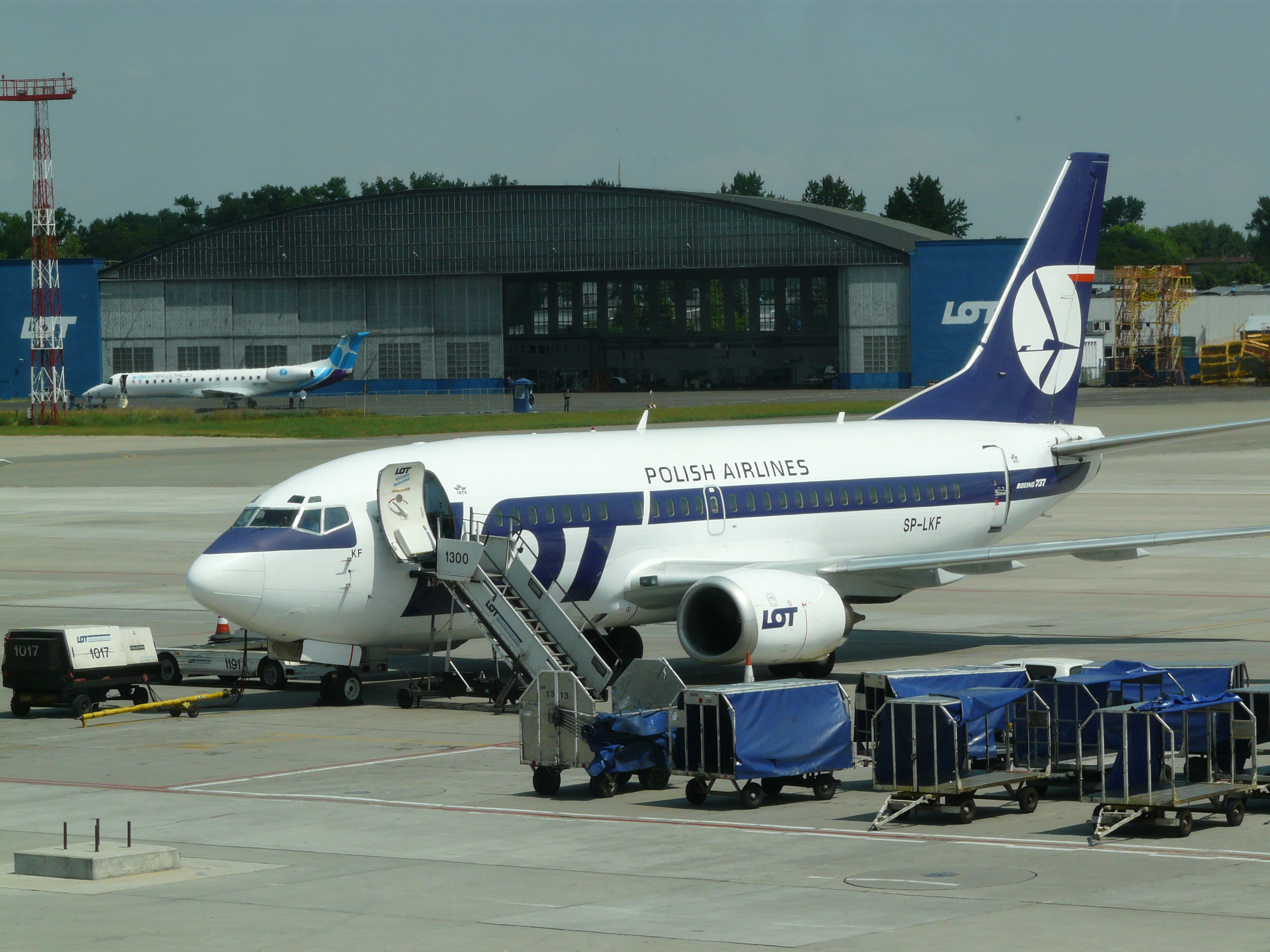 The Boeing 737-500 of LOT, registered SP-LKF, at Warsaw airport.